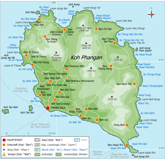 Map of Koh Phangan (Surat_Thani, Thailand)